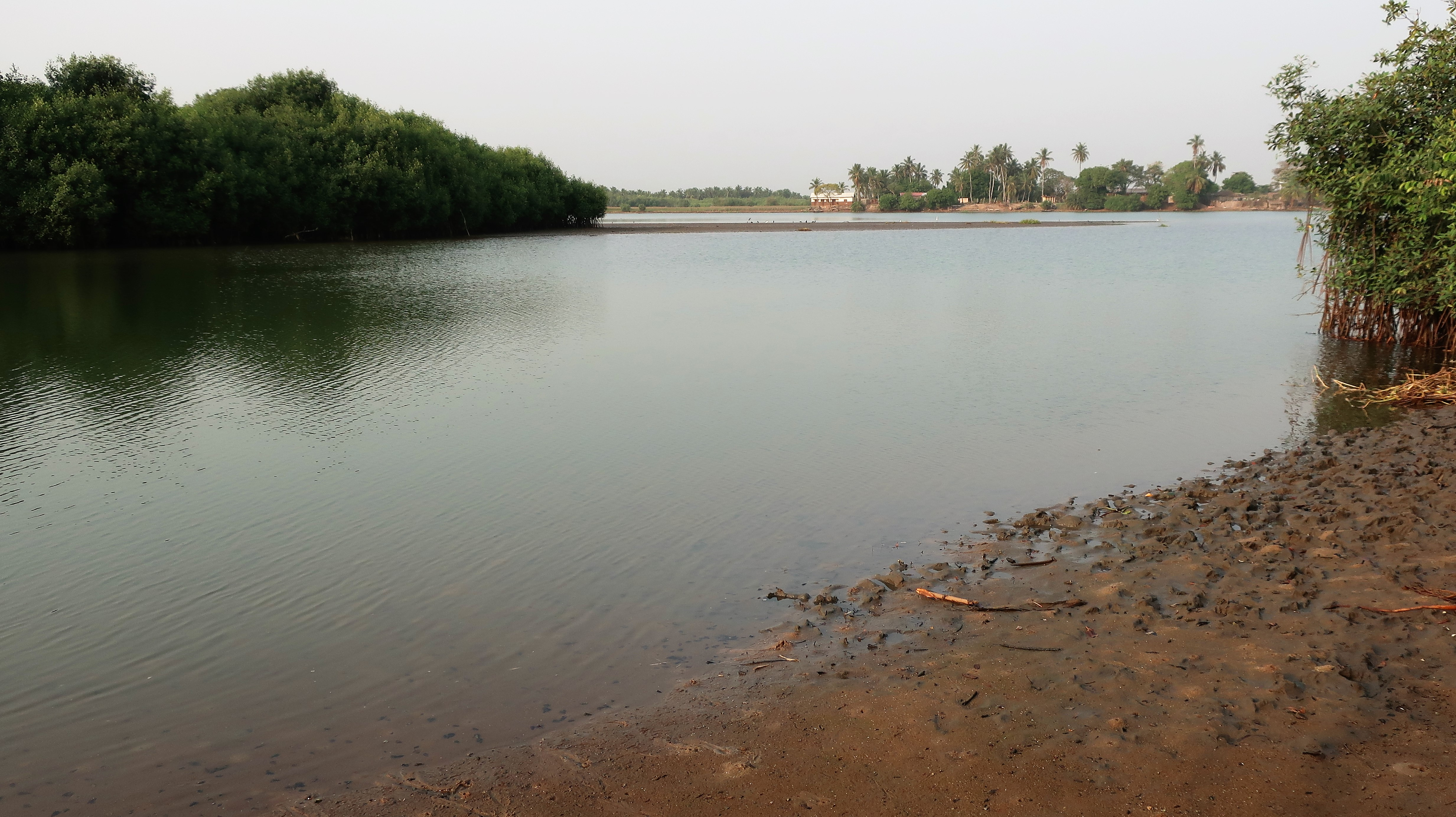 Estuary of Mono river, mangrove and houses on the other side in Avloh, Grand-Popo, Benin.